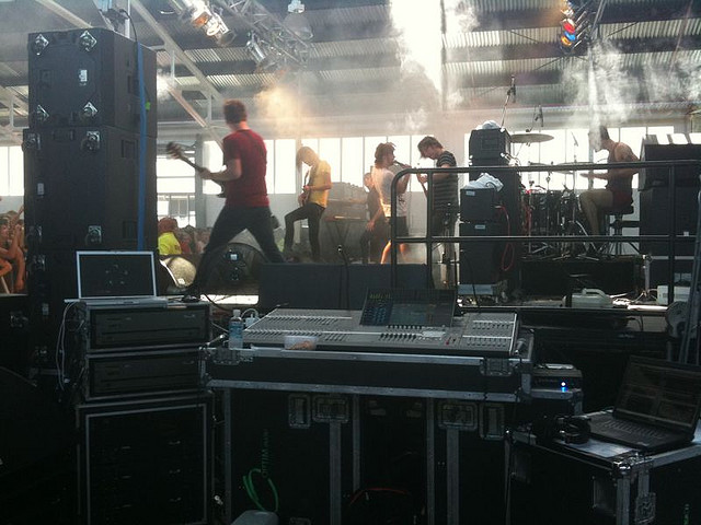 Dunkys monitor world at Soundwave 2010 Yamaha M7CL Digital Mixing Console